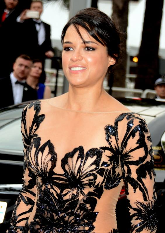 Michelle Rodriguez at the Cannes film festival